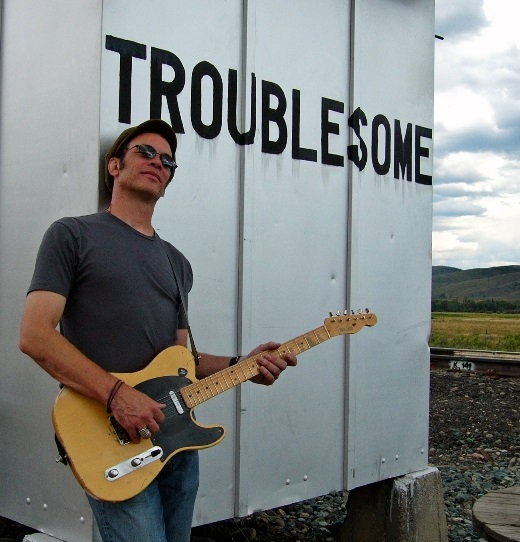 Selby, down by tracks of Troublesome, Colorado